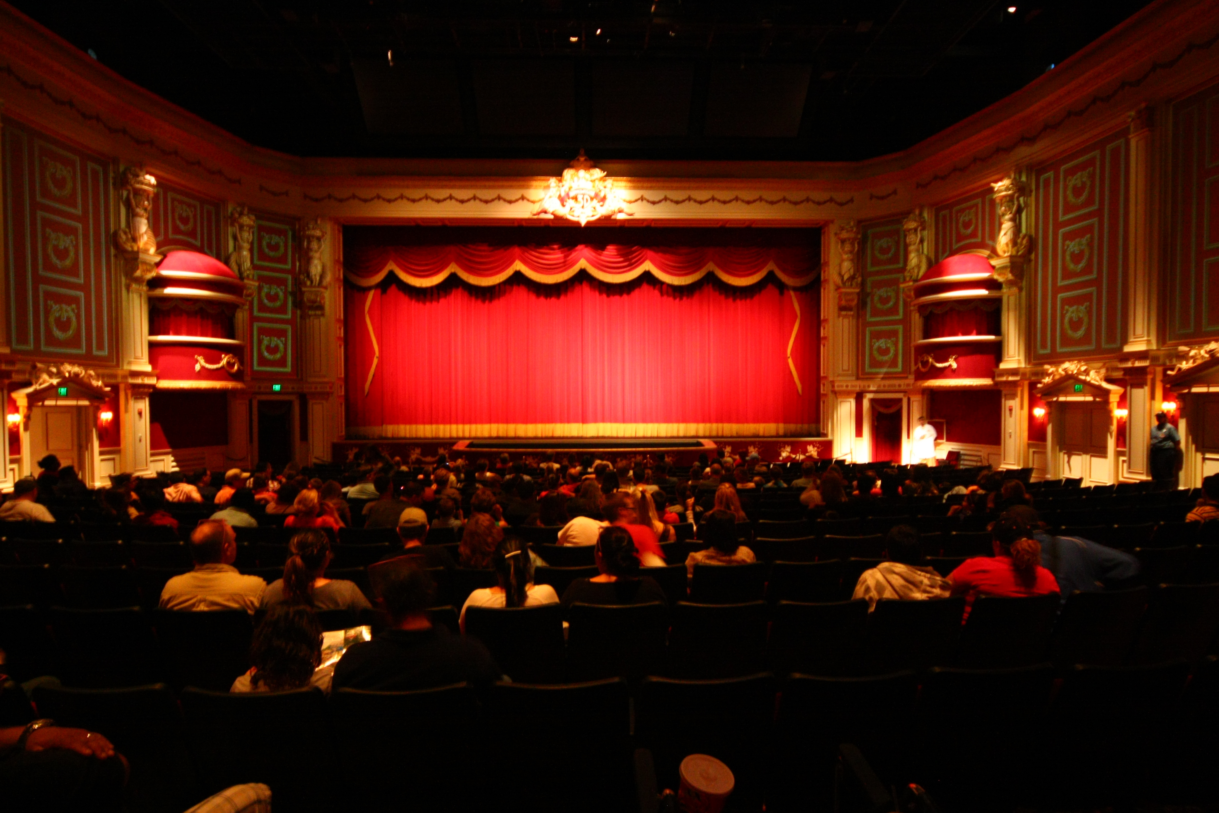 Main theater of Muppetvision 3D at Disney's California Adventure.